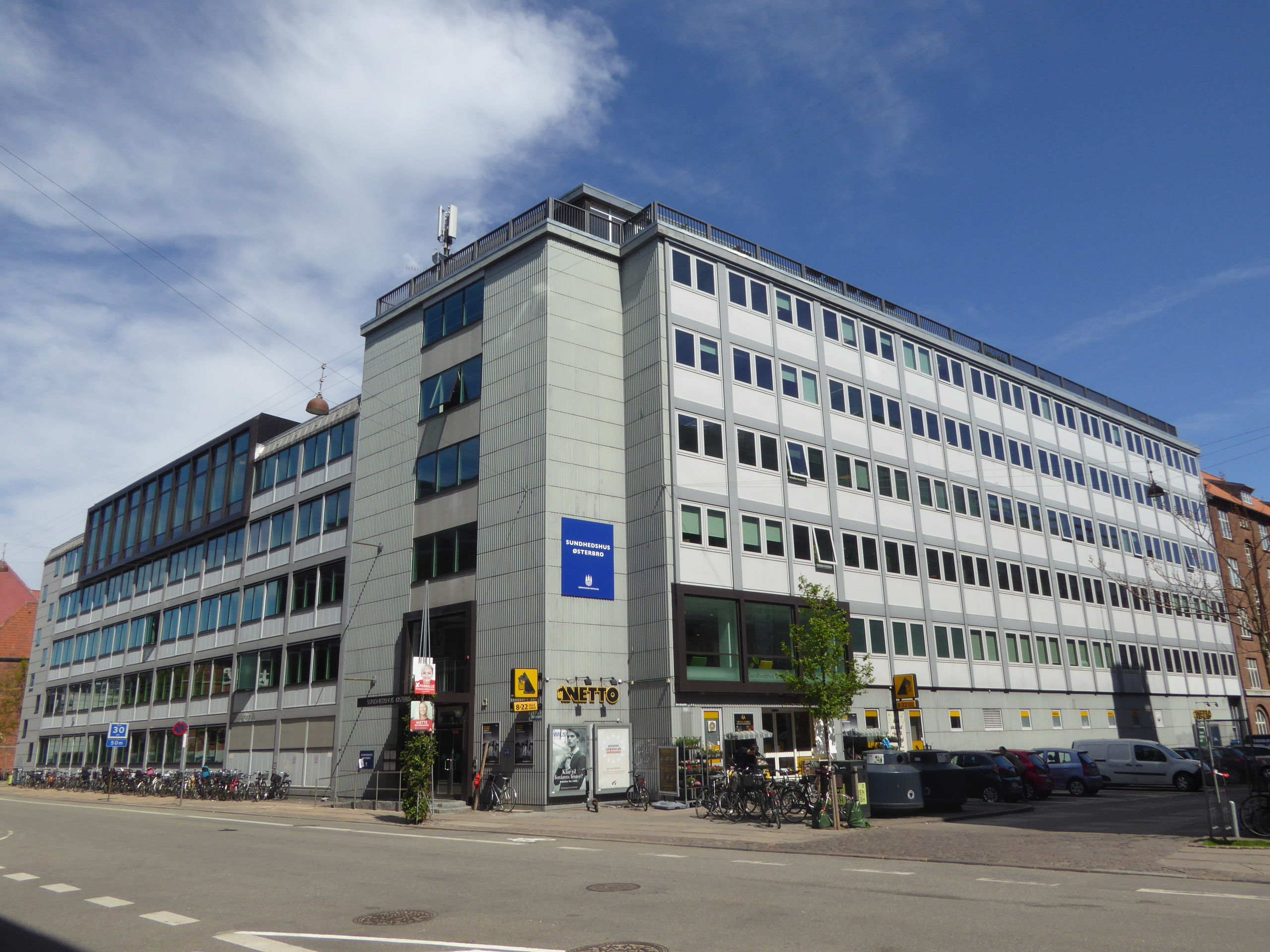 Sundhedshus Østerbro at the corner of Randersgade and Korsørgade in Østerbro in Copenhagen